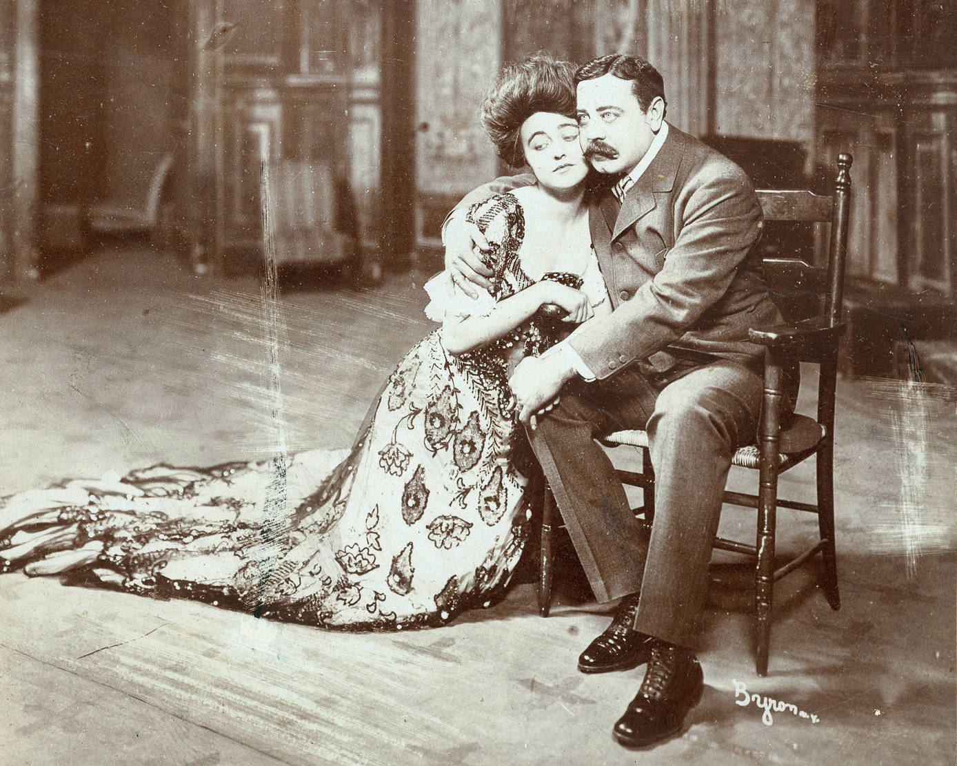 A scene from "The Pit," which opened Sept. 1, 1905, at the Grand Opera House, Seattle. Includes Wilton Lackaye and Jane Oaker. Subjects: plays, actors, actresses